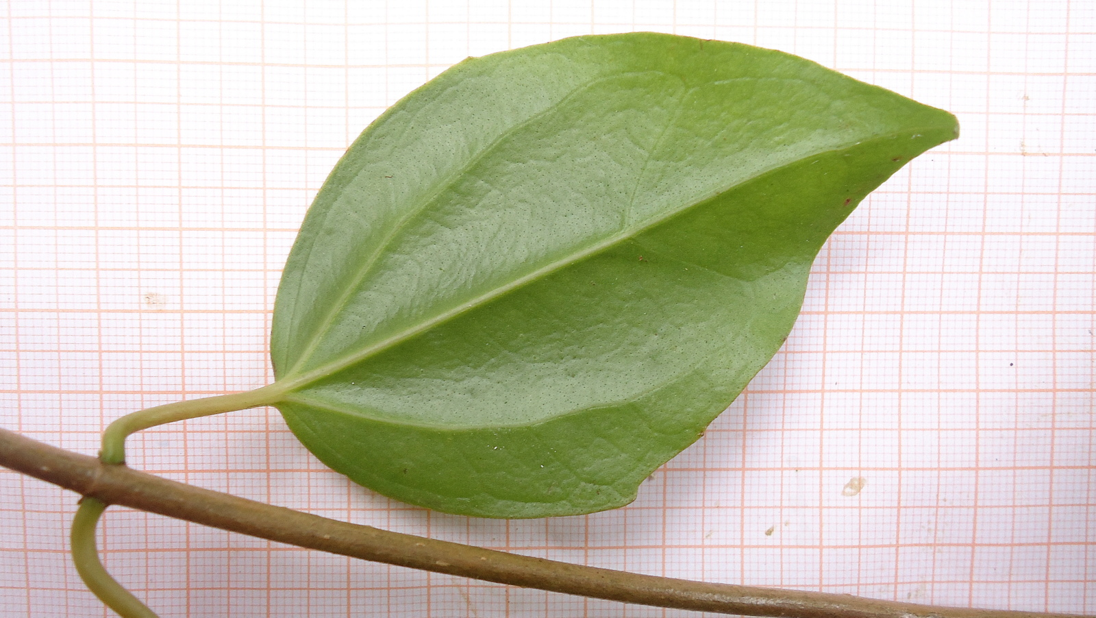 Mikania sp., Asteraceae, Atlantic forest, northeastern Bahia, Brazil